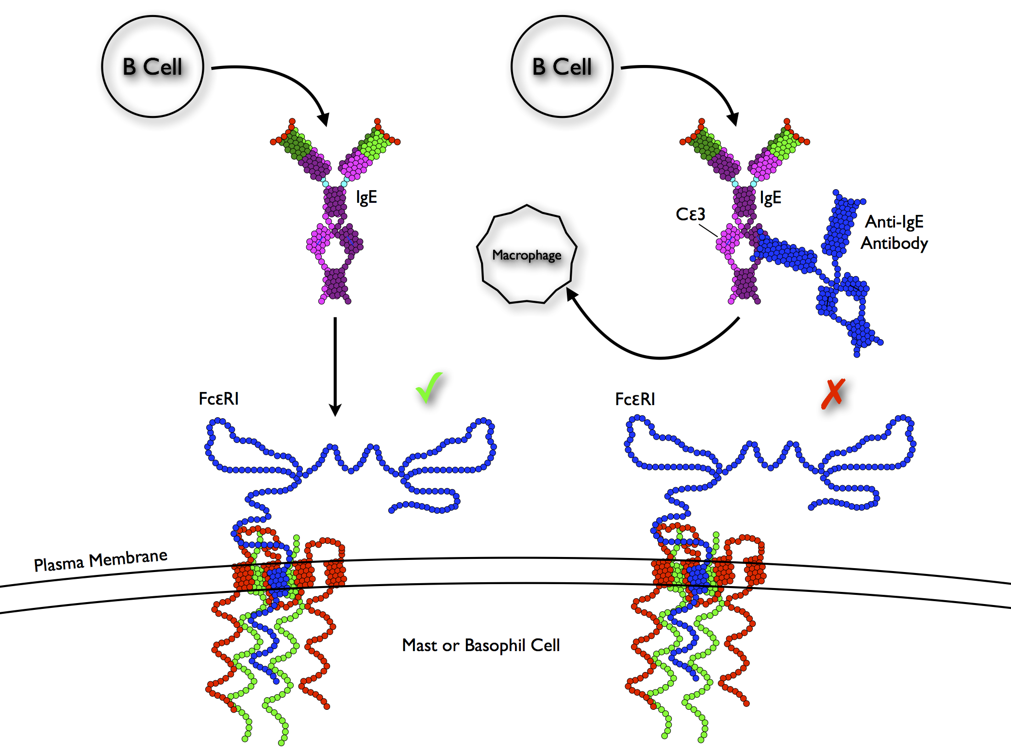 Simple diagram showing the way immunotherapy is used to treat the allergy disorder.